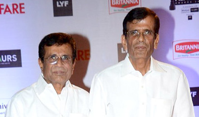 Director duo Abbas–Mustan at the 61st Filmfare Awards